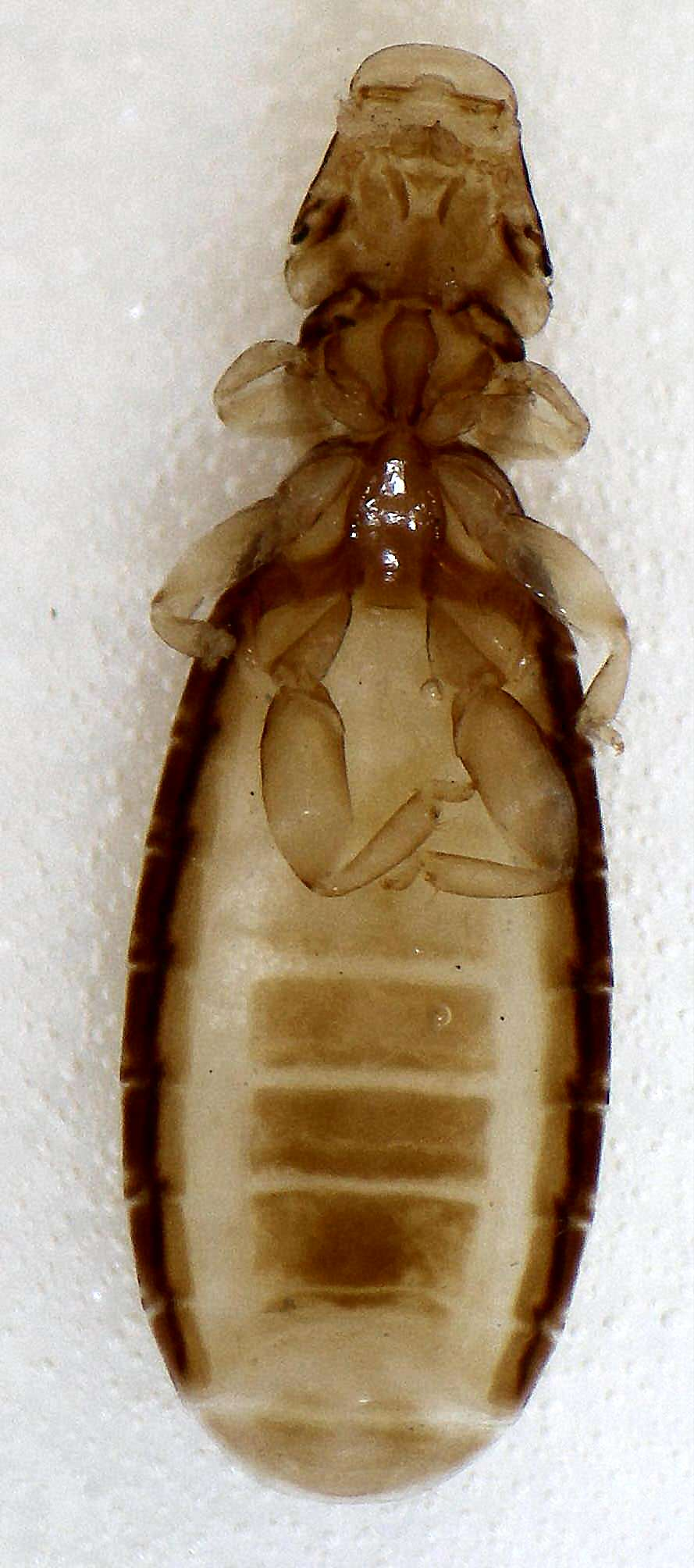 Ricinus bombycillae (Denny, 1842) collected from a Bohemian Waxwing, ventral view